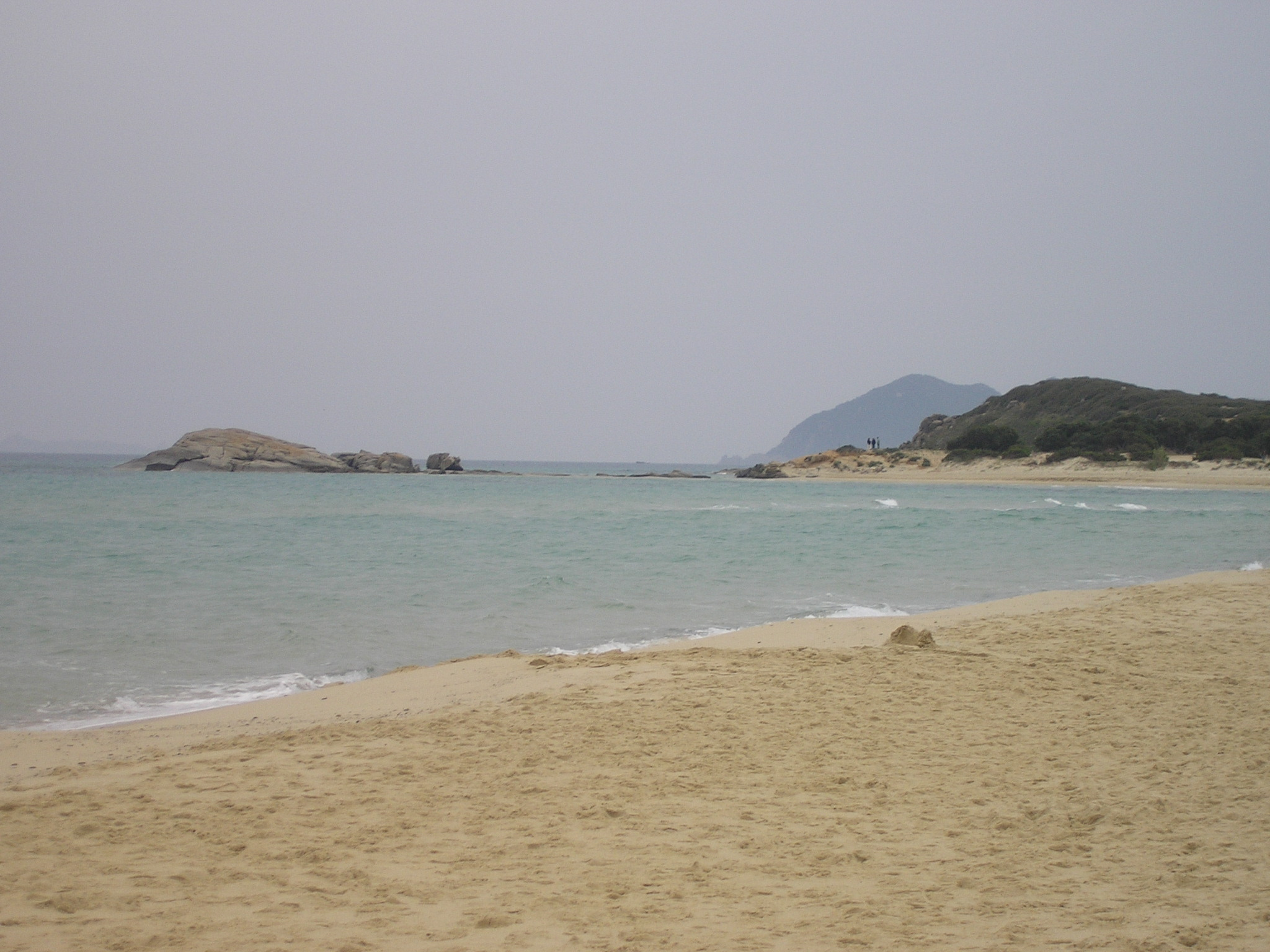 The Scoglio di Peppino (Peppino's reef), in Costa Rei beach, Sardinia, Italy